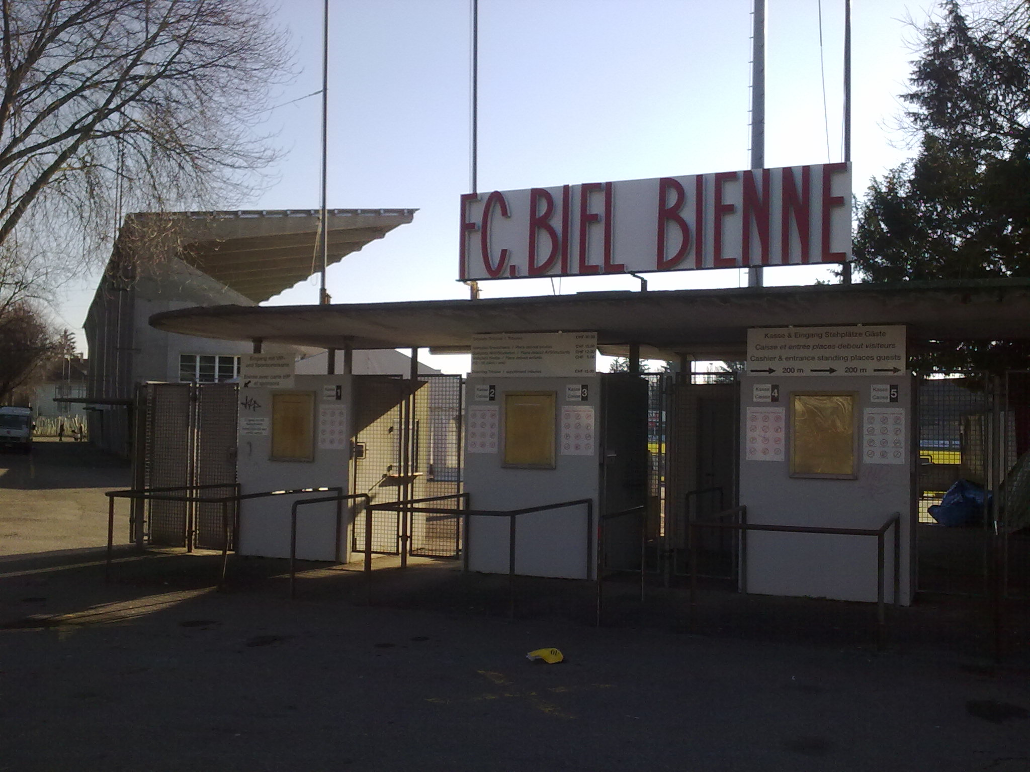 FC Biel/Bienne